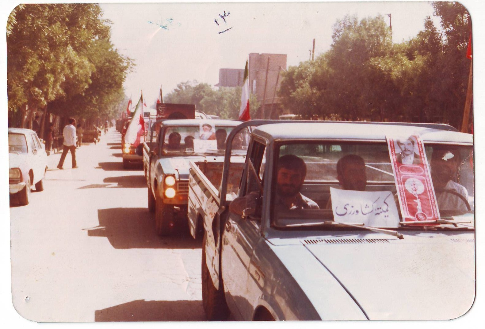 ازنا کاروان کمک های مردمی به جبهه - مجری جهاد سازندگی ازنا